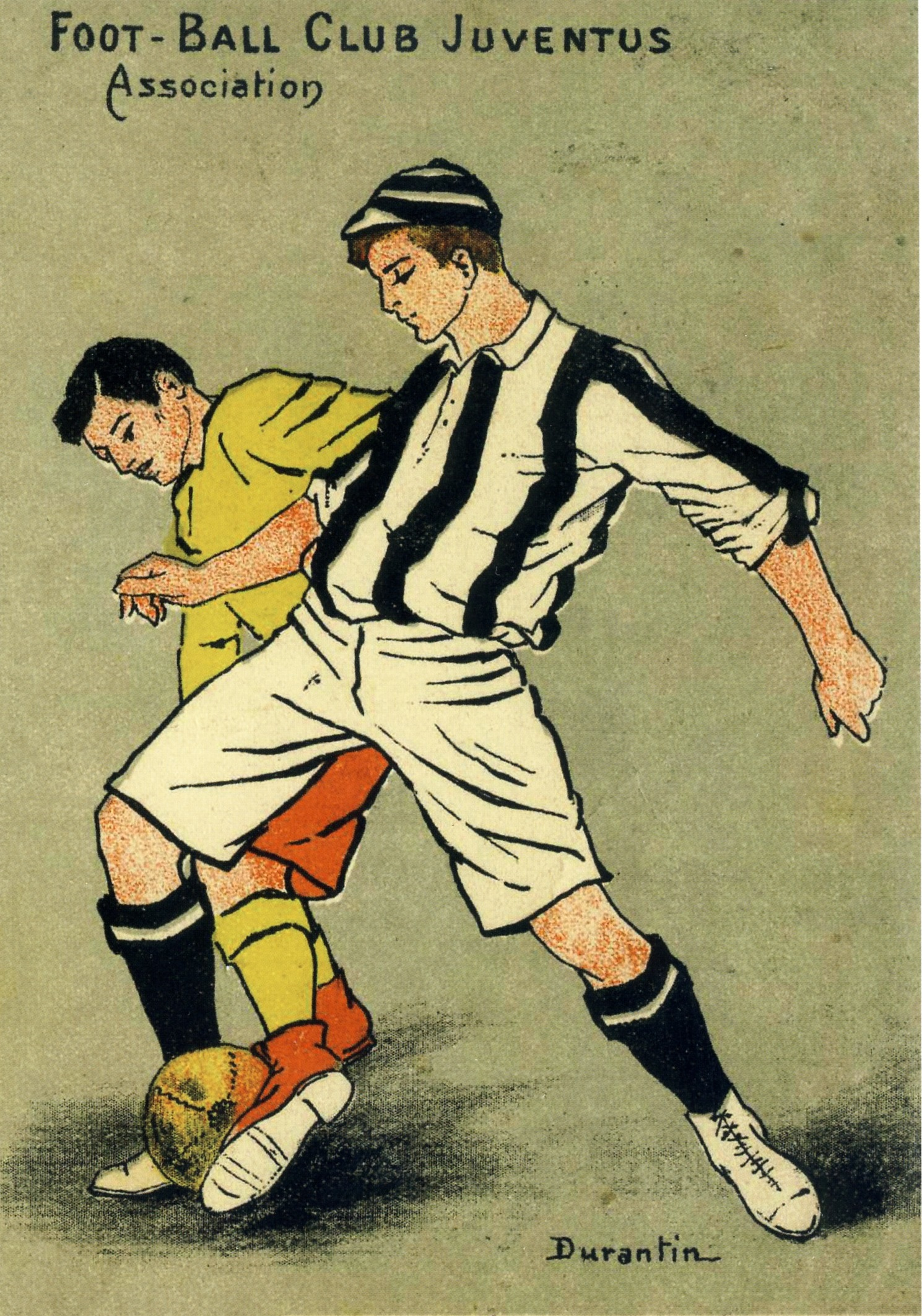 Foot-Ball Club "Juventus" Association